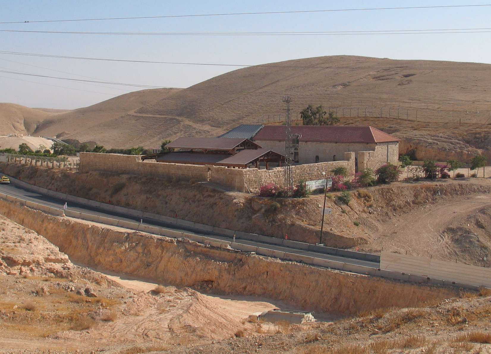 Good Samaritan's Inn, east of Ma'ale Adumim.